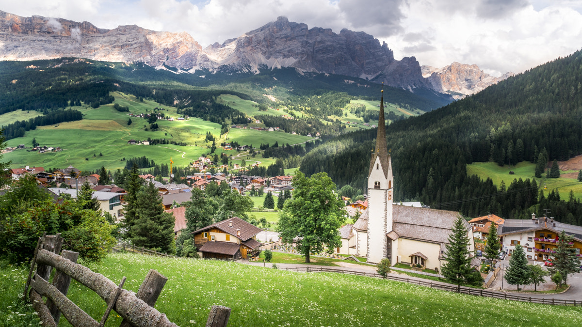 500px provided description: If you like my pictures please support me buying a print from my shop thanks! You can follow me on [#trees ,#sky ,#landscape ,#mountains ,#nature ,#travel ,#church ,#clouds ,#europe ,#italy ,#outdoor ,#grass ,#photo ,#green ,#sony ,#village ,#mountain ,#italia ,#photography ,#dolomites ,#houses ,#villa ,#dolomiti ,#full frame ,#trentino ,#fullframe ,#geotagged ,#a7 ,#sella ,#alta badia ,#gruppo del sella ,#sella group ,#badia ,#sony a7 ,#sonya7 ,#sony fe 24 70 ,#sony 24 70 ,#badiafood]